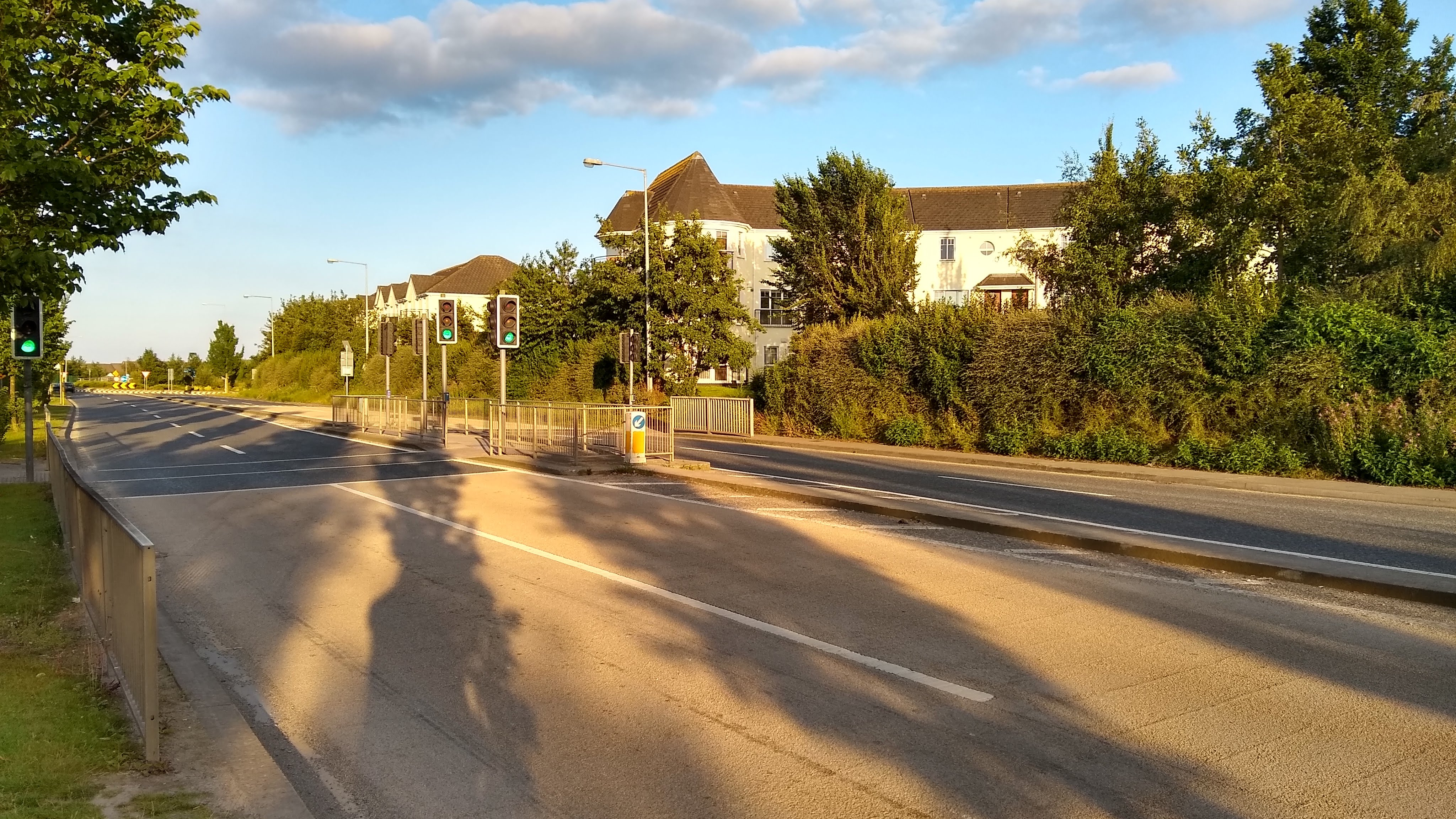 R125 which bisects Holywell, late evening